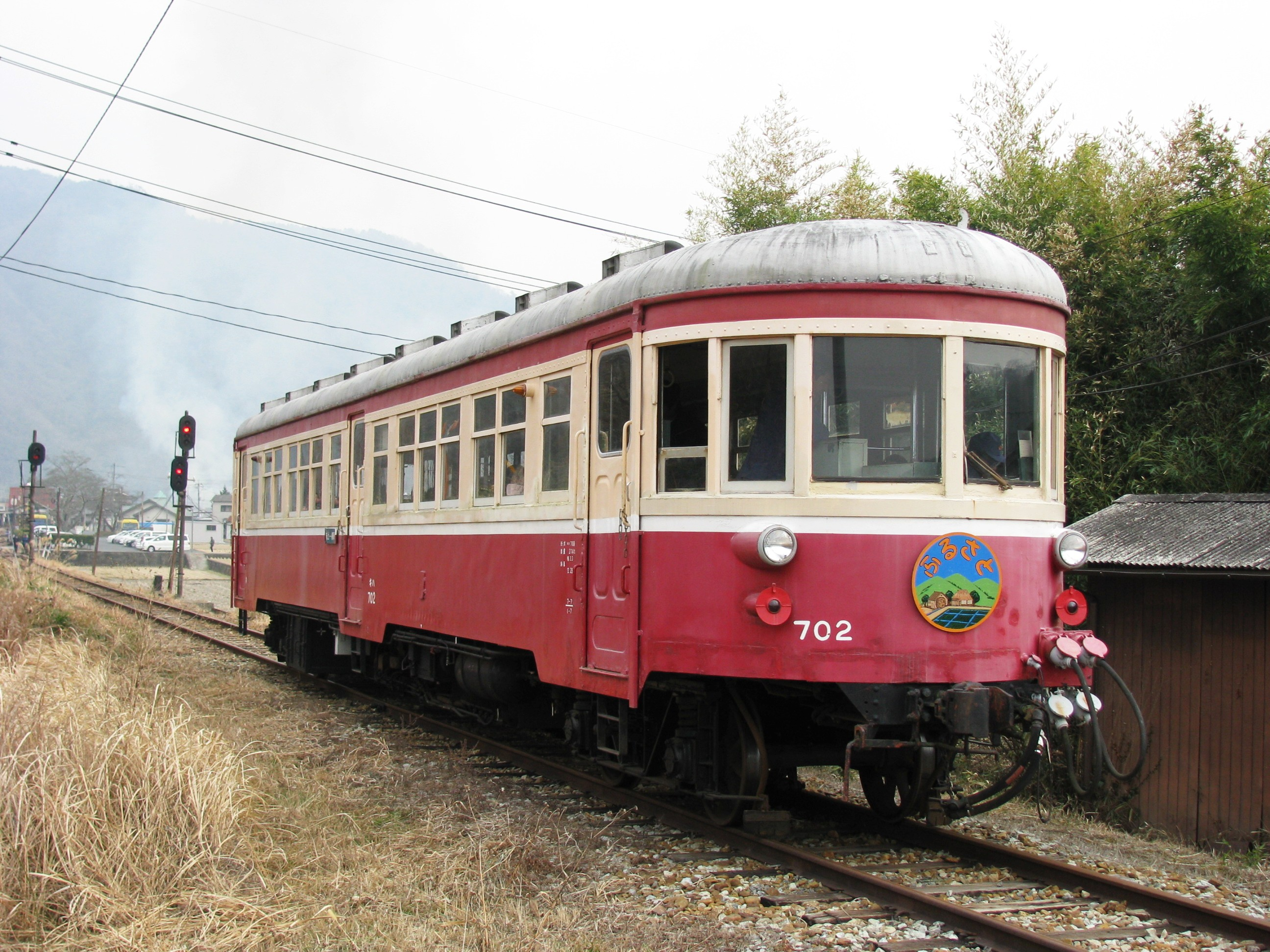 The Katakami Tetsudō (Katakami Railway) is a discontinued railway line. This place is Misaki, Kume District, Okayama Prefecture, Japan.